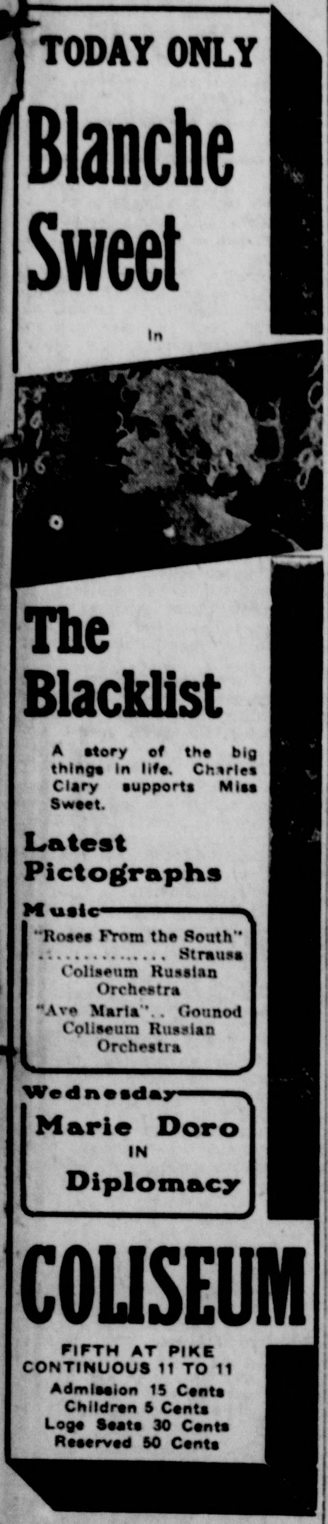 Advertisement for the American drama film The Blacklist (1916) with Blanche Sweet, from the The Seattle Star.